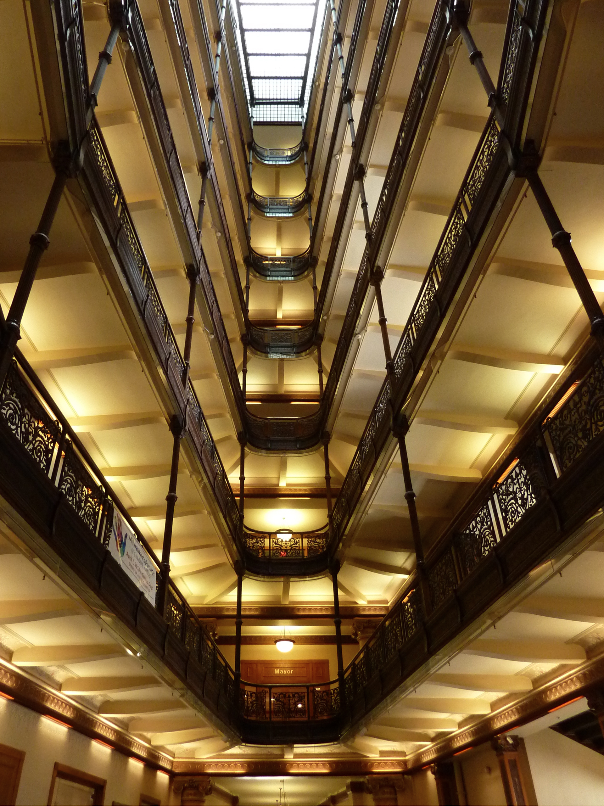 Interior of the Milwaukee City Hall